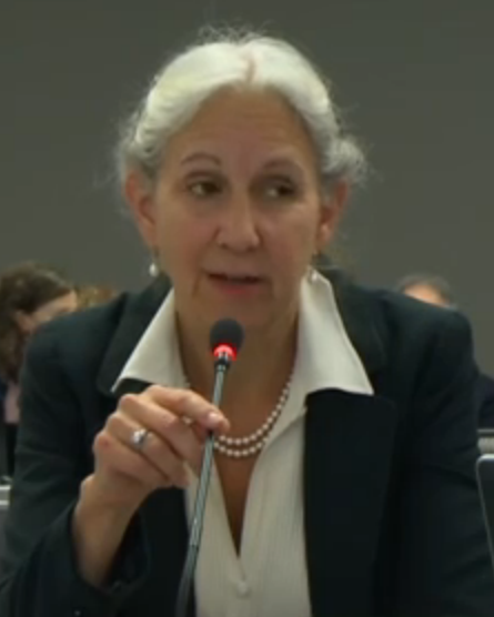 Alice Lichtenstein, vice chair, 2015 US Dietary Guidelines Advisory Committee